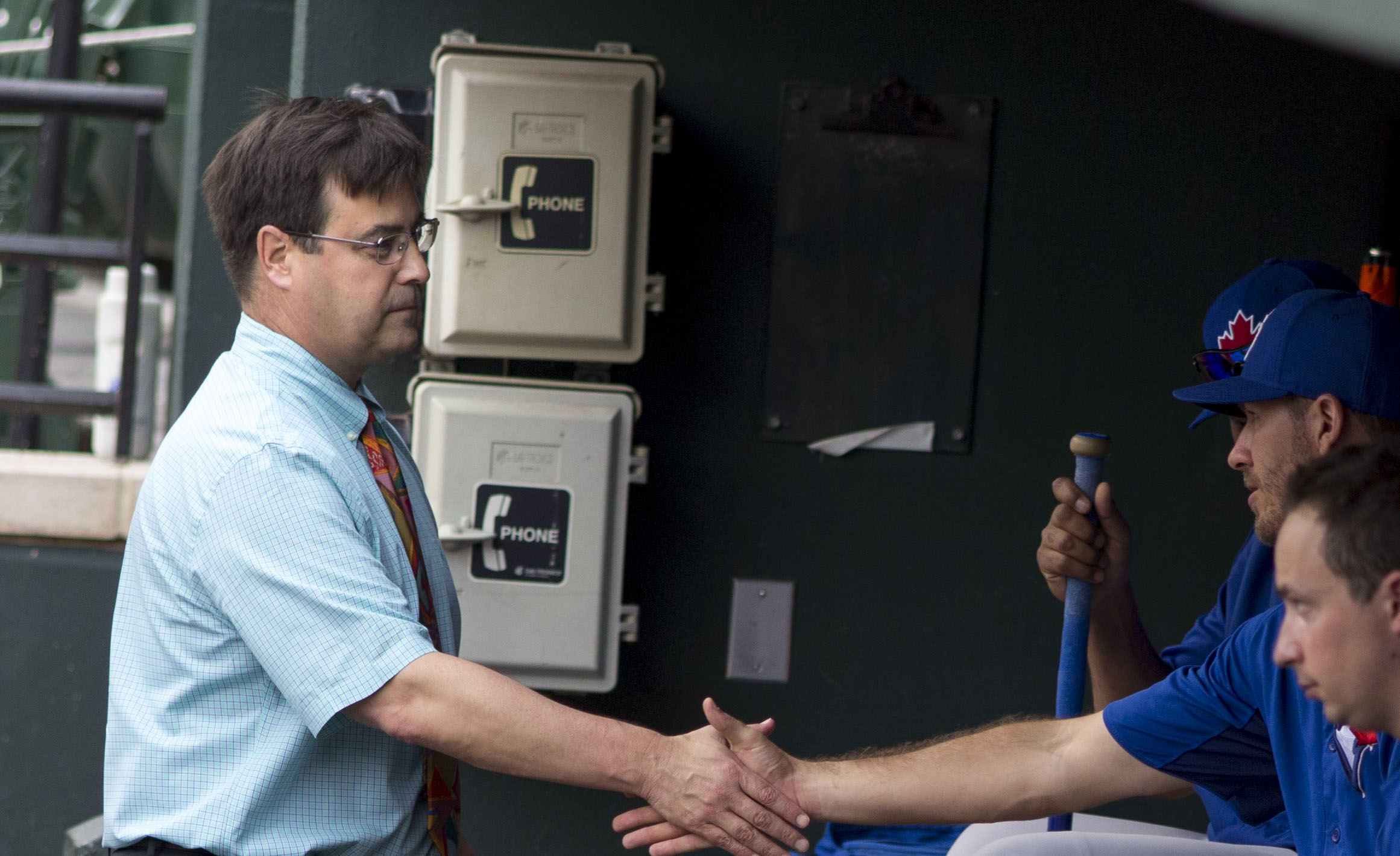 Toronto Blue Jays at Baltimore Orioles July 13, 2013